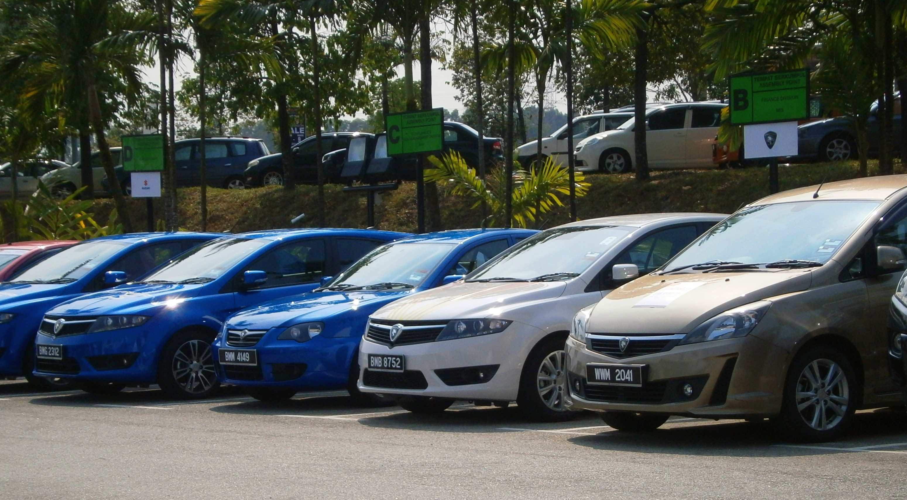 Proton Test Drive Cars (left to right; Suprima S, Persona SV, Prevé CFE, Exora Bold CFE) in Glenmarie, Malaysia.